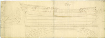 Plan showing the body plan, sheer lines, and longitudinal half-breadth for 'Conqueror' (1758) and 'Temple' (1758), both 68-gun Third Rate, two-deckers, based on the design for 'Vanguard' (1748), a 1745 Establishment 68-gun Third Rate, two-decker.